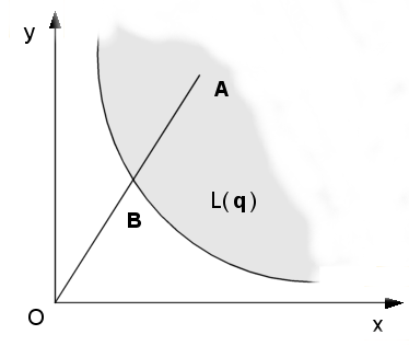 Distance function File created by Giuseppe.Vittucci